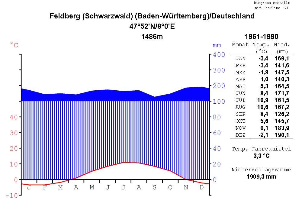 climate chart of the Feldberg, Baden-Württemberg, Germany, for the period of time from 1961 to 1990, in the format by Walter and Lieth, metric, °Celsius and millimeters, chart made with Geoklima 2.1, label in German